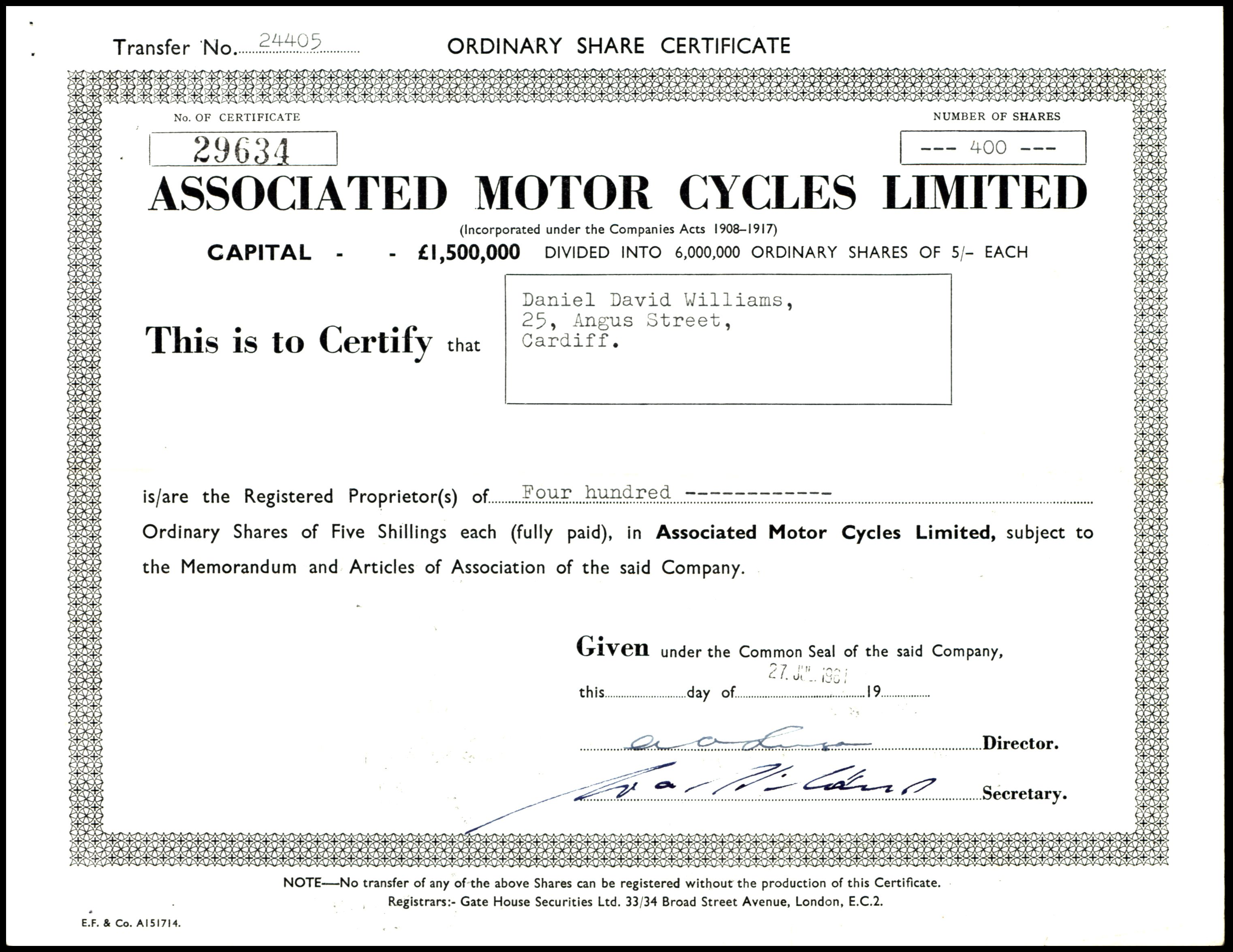 Aktie der Associated Motor Cycles Ltd. vom 27. Juli 1961